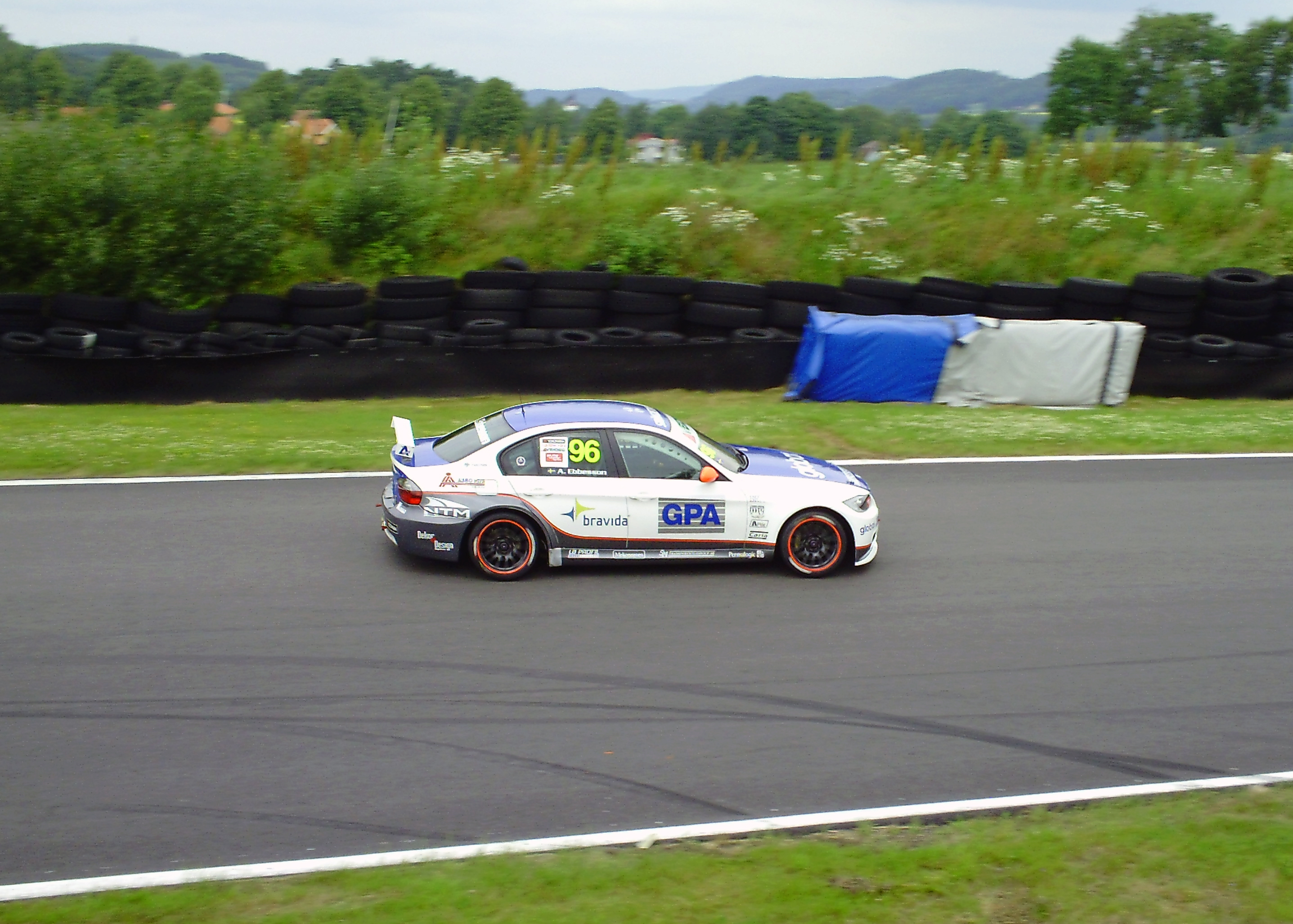 Andreas Ebbesson driving his BMW 320si for Ebbesson Motorsport at Falkenbergs Motorbana, during the fifth round of the 2011 Scandinavian Touring Car Championship (STCC) season.